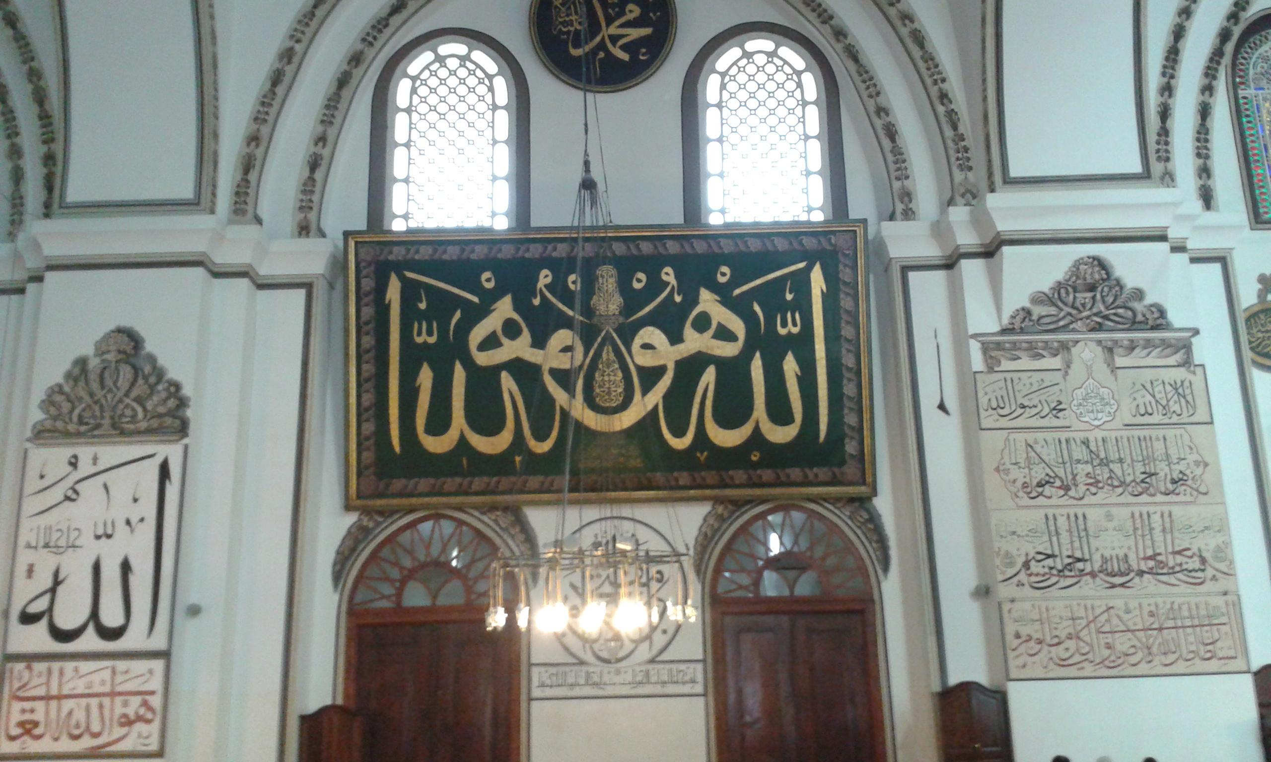 Interrior, Bursa Ulu Cami, Turkey